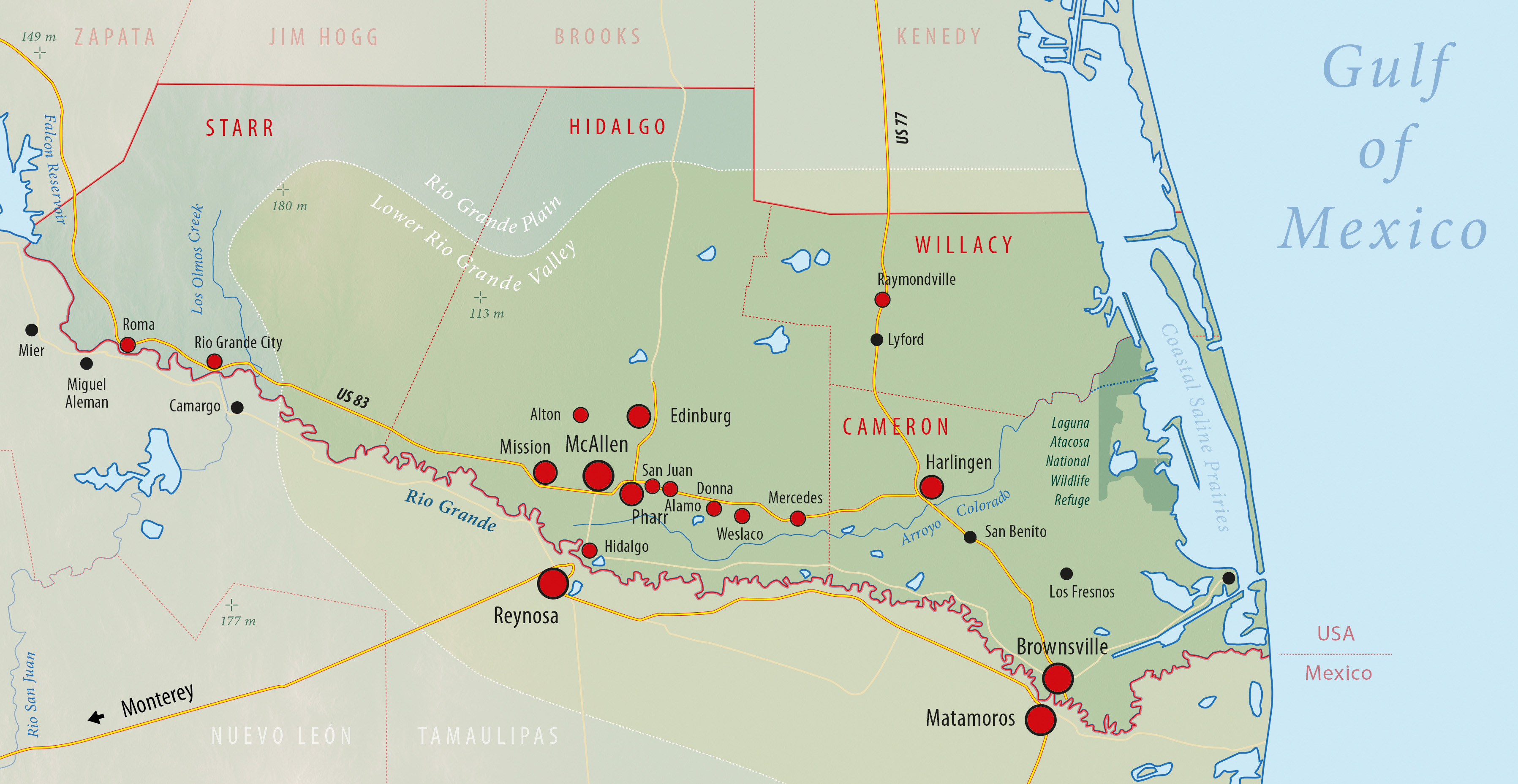 Overview Rio Grande Valley, Texas – Counties and Geography